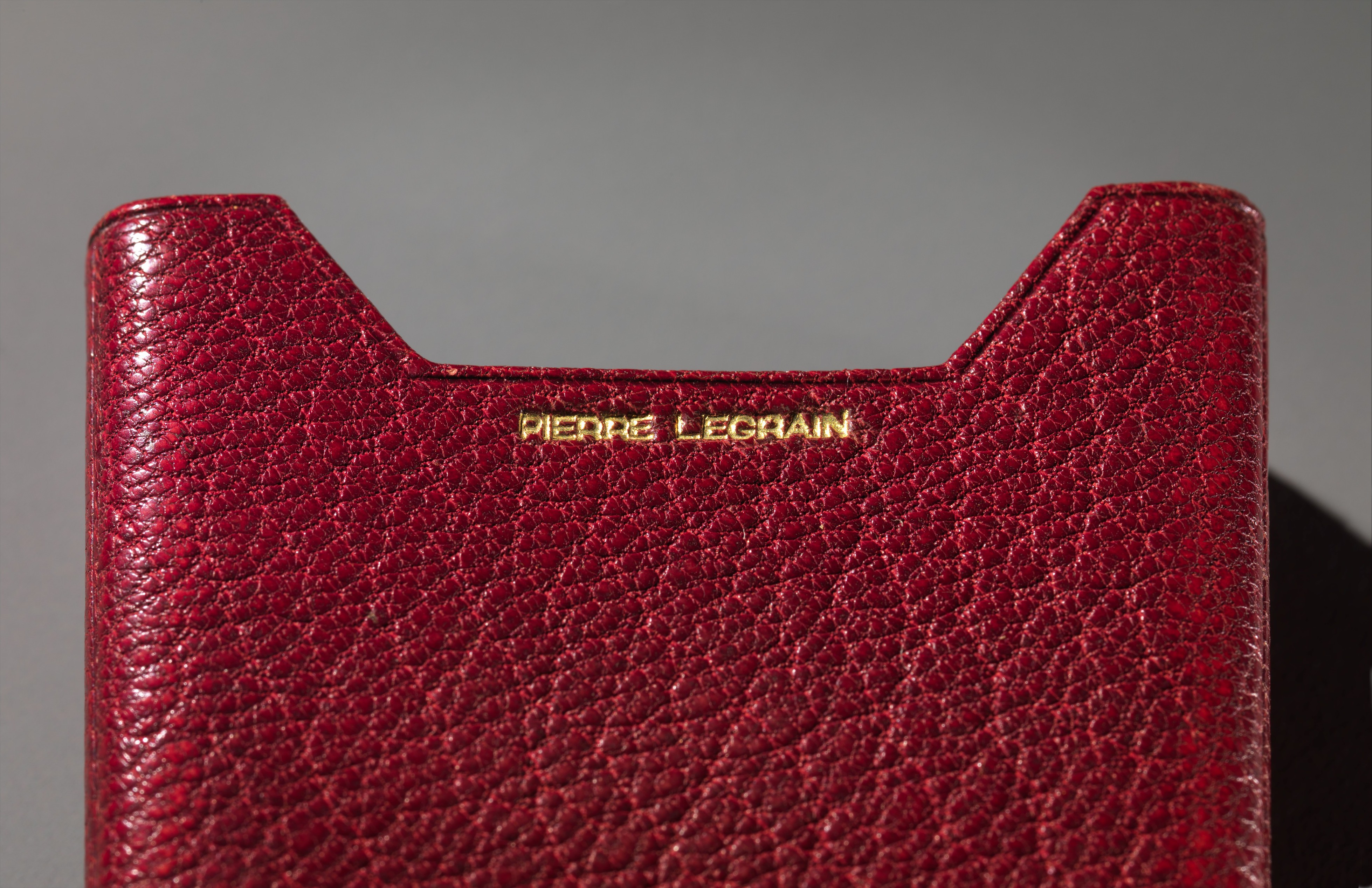 Cigarette case designed by Pierre Legrain. Inscription (signature) on the inner box, stamped in gold): PIERRE LEGRAIN